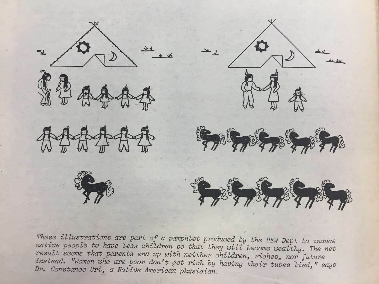 This is a pamphlet made by the Department of Health and Education urging Native American individuals to be sterilized